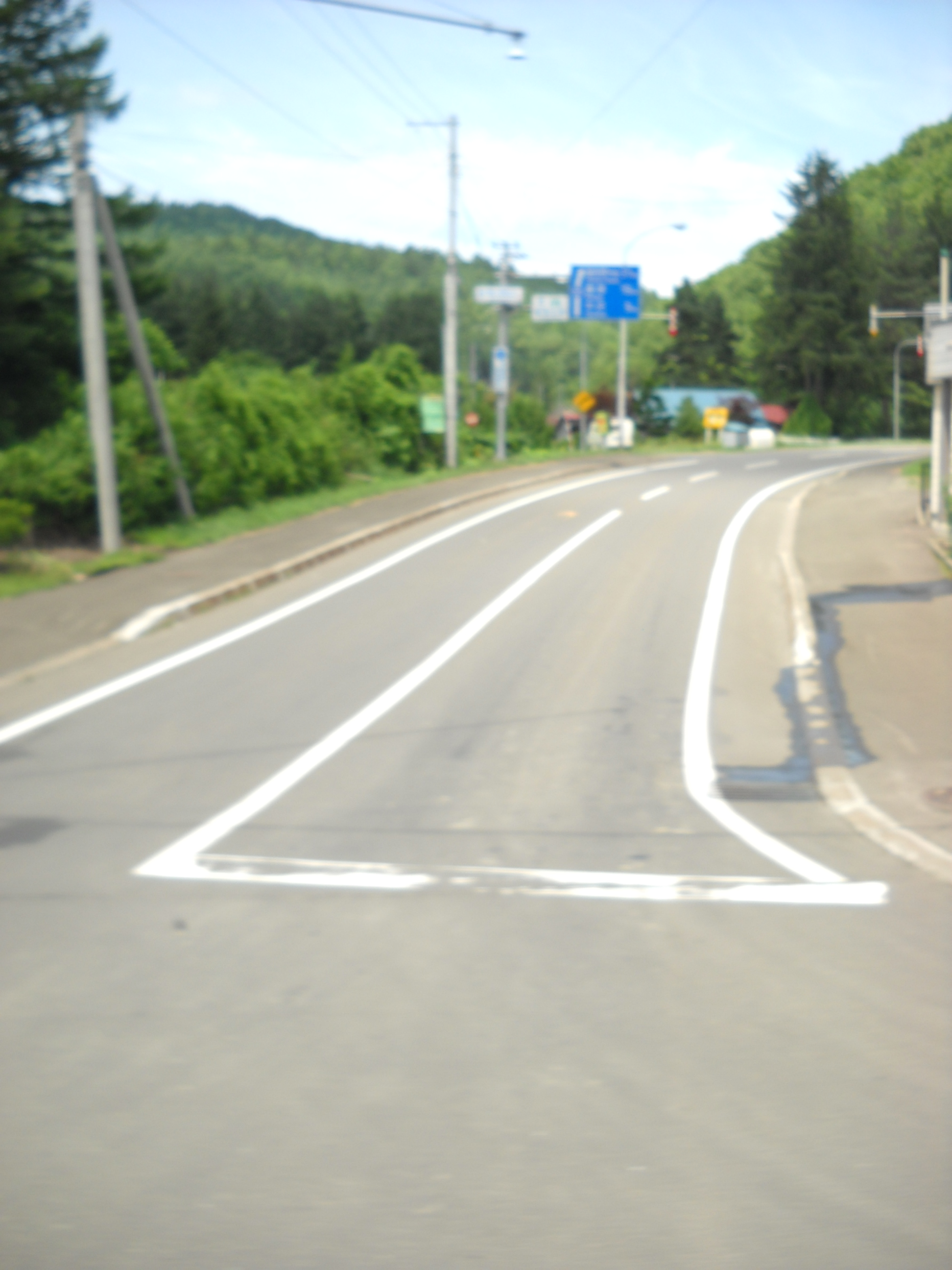 Hokkaido prefectural road route253, Minami-Furano, Hokkaido, Japan